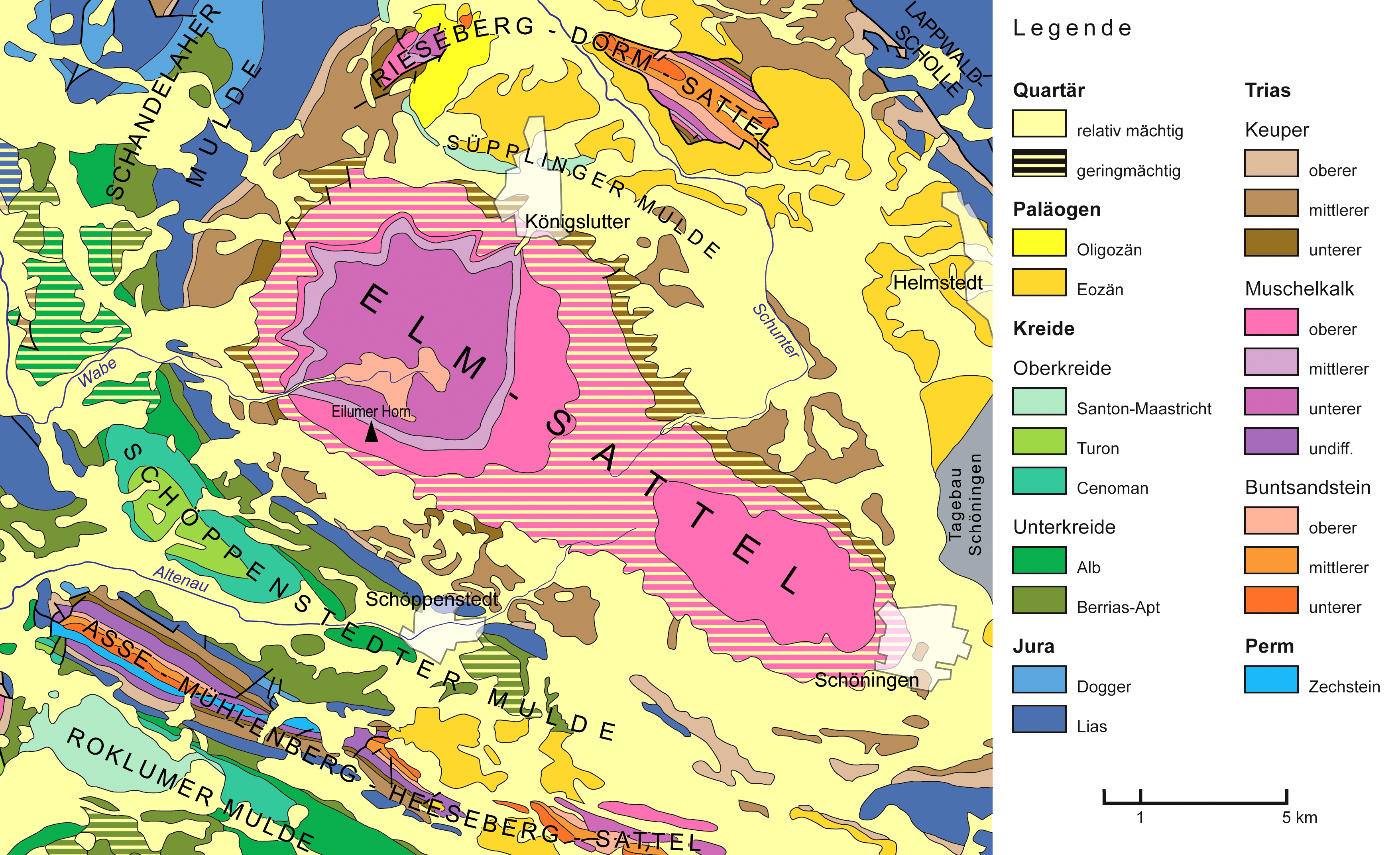 Geological map of the low ridges east of Brunswick (Asse, Mühlenberg, Heeseberg, Elm, Rieseberg, Dorm), southeastern Lower Saxony. These ridges are the surficial expressions of subsurface salt diapirs emerged from the Upper Permian Zechstein evaporite deposits.